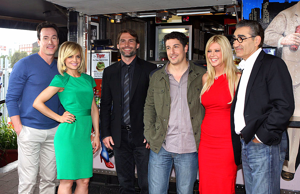 American Pie Reunion Cast, Harry's Cafe de Wheels Sydney 2012.